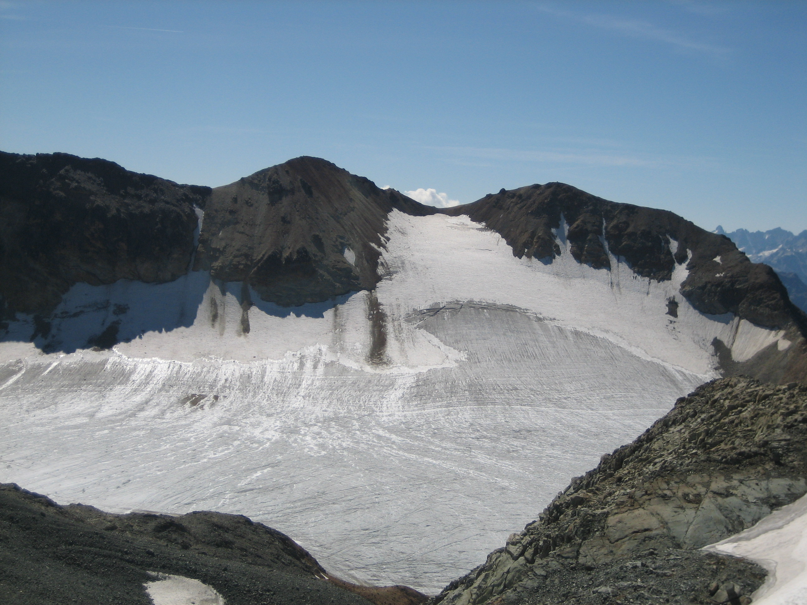 Vadret Calderas and Tschima da Flix from Piz Calderas, Grisons, Switzerland